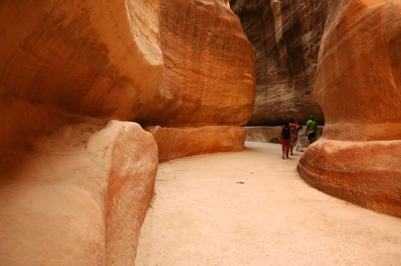 The narrow passage (Siq) that leads to Petra.